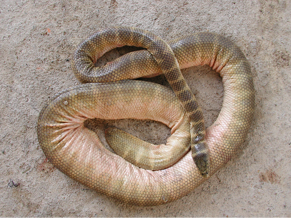 A typical sea snake, Hydrophis belcheri. Note the flattened tail as an adaptation to swimming in the open sea.